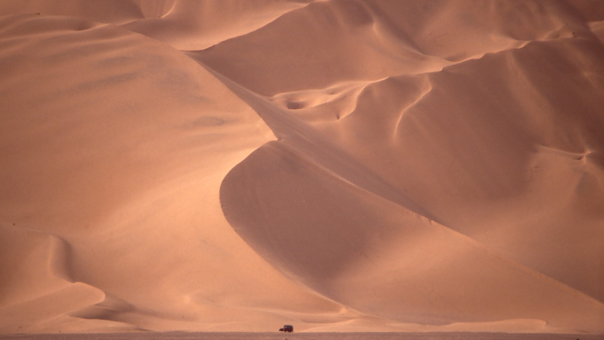 Dune with 4WD car near the Grand Erg Occidental, Algeria